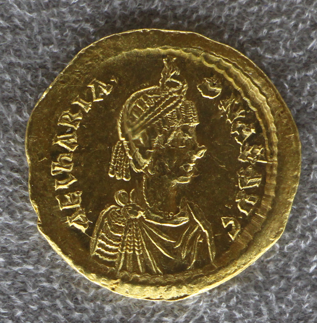 Sovana Treasury in the Museo archeologico nazionale (Florence)